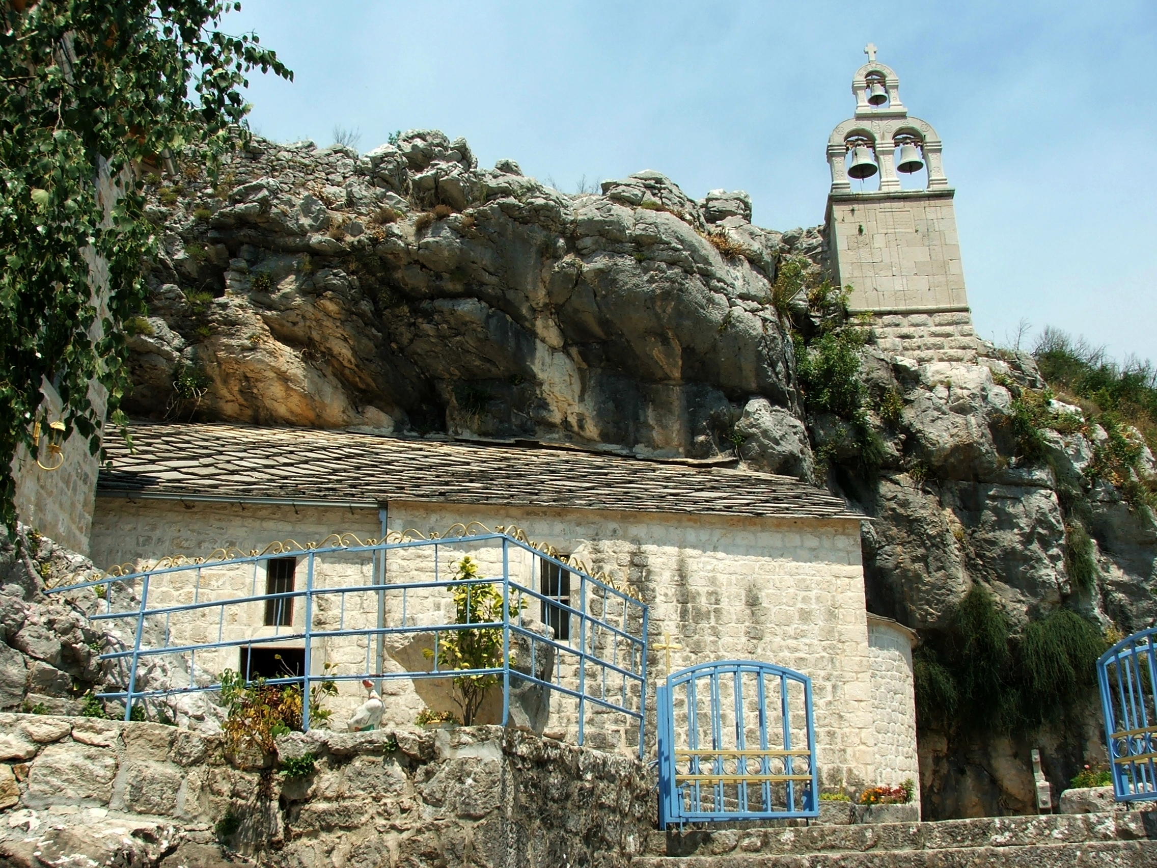 Zavala Monastery The Zavala Monastery is located in the immediate vicinity of Popovo Polje. The church relies on the natural cave, and its architecture is conditioned by this position. The church is dedicated to The Entry of the Most Holy Theotokos into the Temple. The interior of the church is painted with frescoes, which are the work of the famous Hilandar monk Georgije Mitrofanović, a great Serbian painter of the 17th century. In this monastery, novice was St. Basil of Ostrog. Српски (ћирилица): Манастир Завала Манастир Завала налази се у непосредној близини Поповог Поља. Црква се наслања на природну пећину, и њен изгед и архитектура условљени су овим положајем. Црква је посвећена ваведењу Пресвете Богородице. Унутрашњост цркве је живописана фрескама, које су рад познатог хиландарског монаха Георгија Митрофановића, великог српског зографа 17. века. У овом манастиру искушеник је био Свети Василије Острошки. NKD610 - Манастирска црква Ваведења, Завала - Списак културних добара Српске